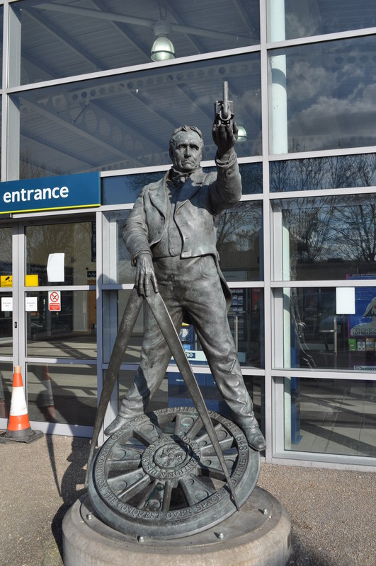 George Stephenson, near to Chesterfield, Derbyshire, Great Britain. The great railway engineer is buried in Chesterfield, his son Robert was also a famous railway engineer. Link He lived from the 9th of June 1781 to the 12th of August 1848.